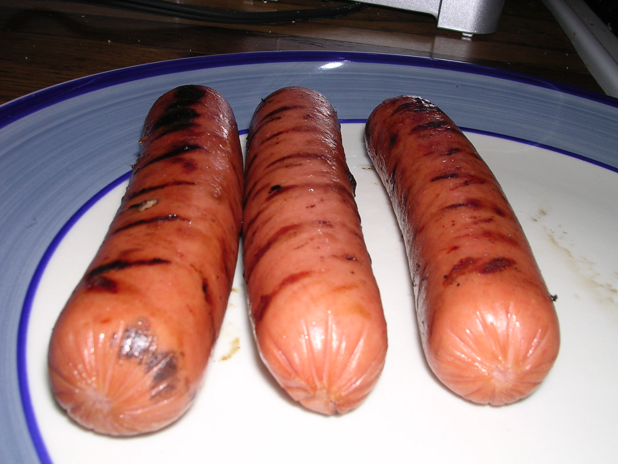 Hotdogs, cooked on a gas grill. Self-created, Dec. 31, 2003.